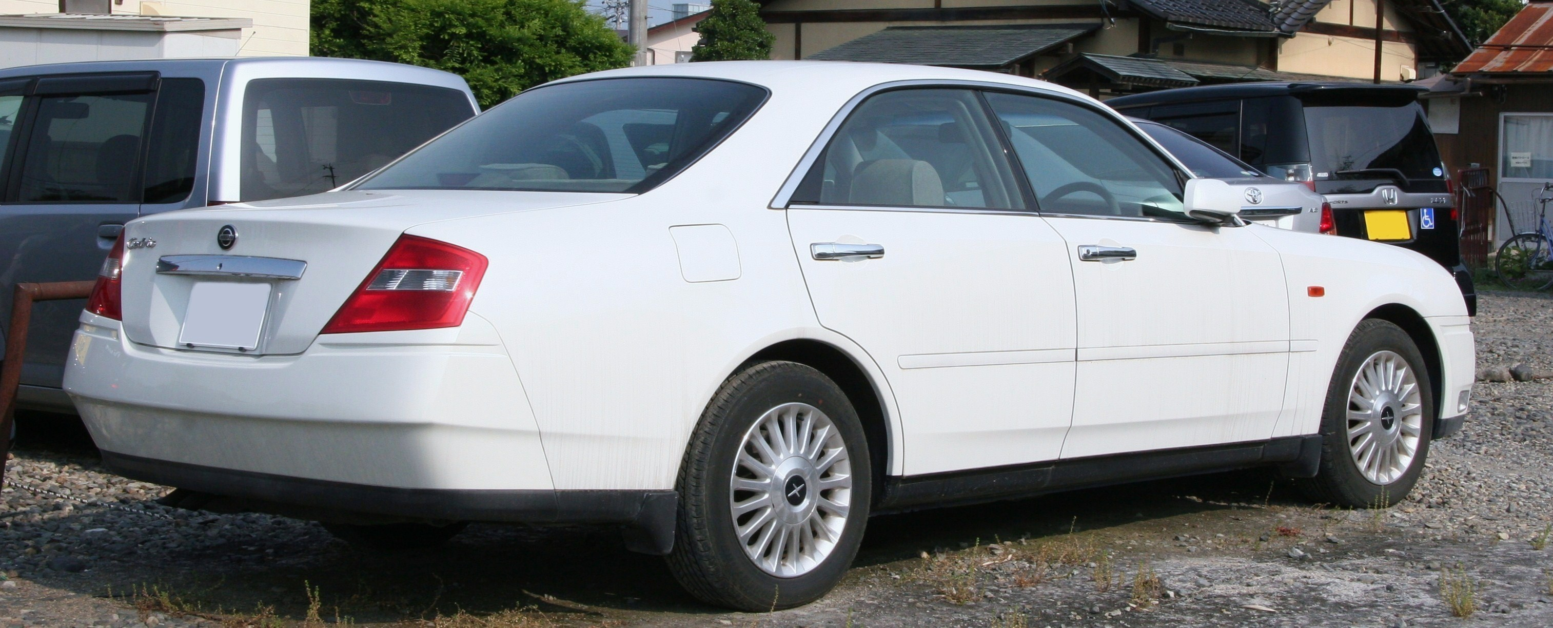 NISSAN Cedric